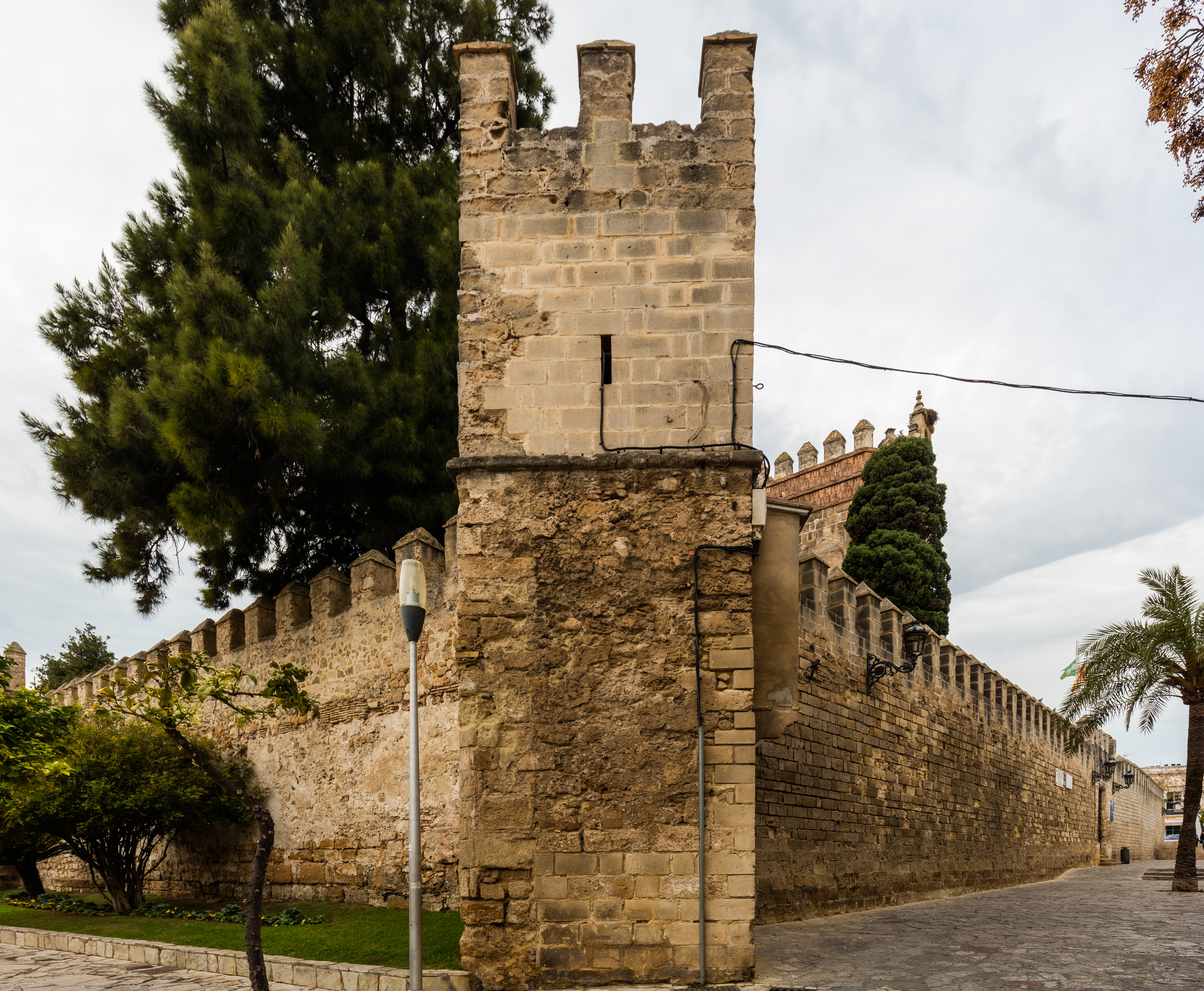 Castle of San Marcos, El Puerto de Santa María, province of Cádiz, Spain.